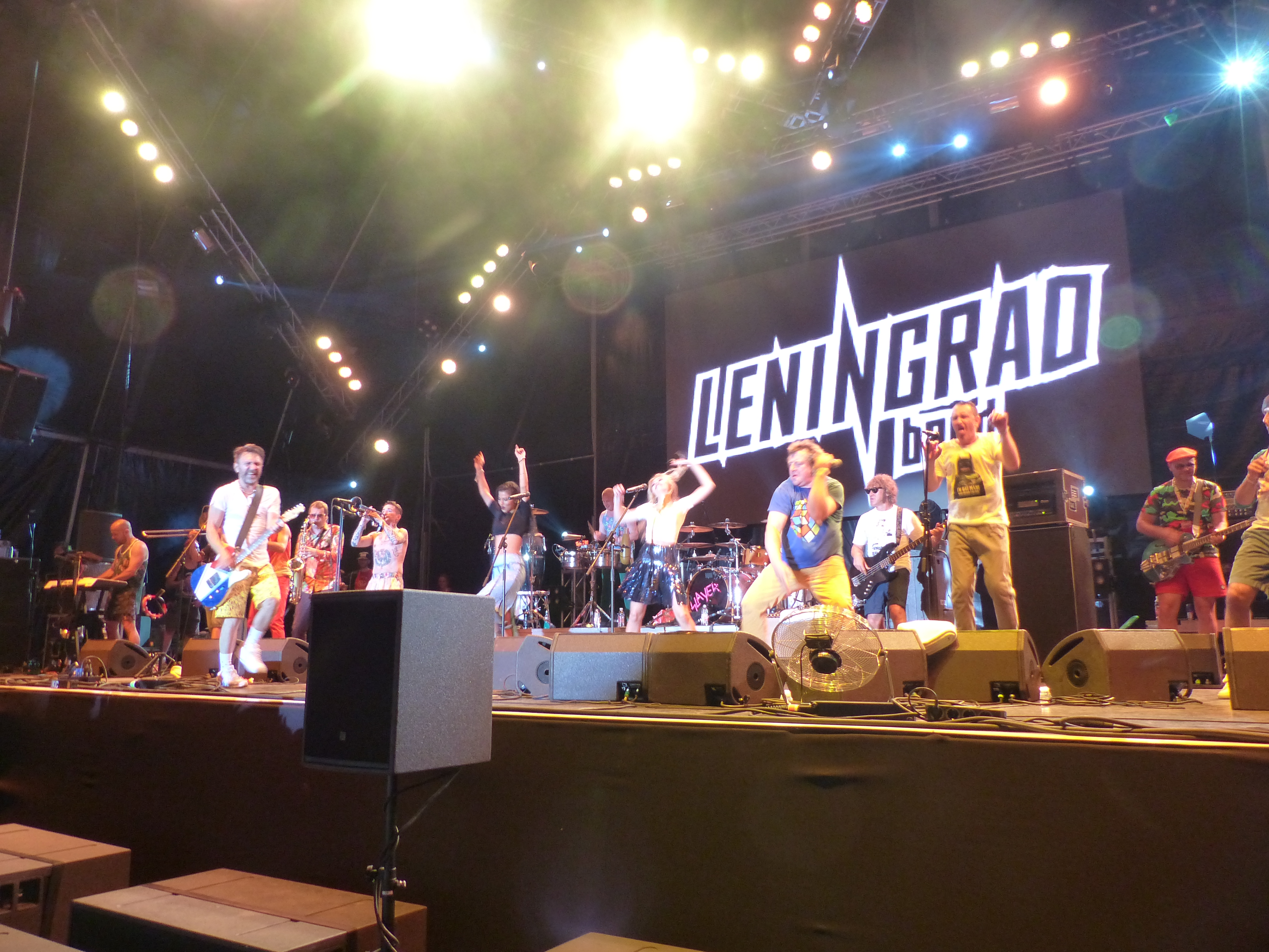 Taken on Saturday, the 13th of August, 2016. Leningrad (band) from Russia. World Music Stage, Sziget Festival, Budapest. Published in Yotel 296 DVD ISBN 978-615-5011-15-3 Sources